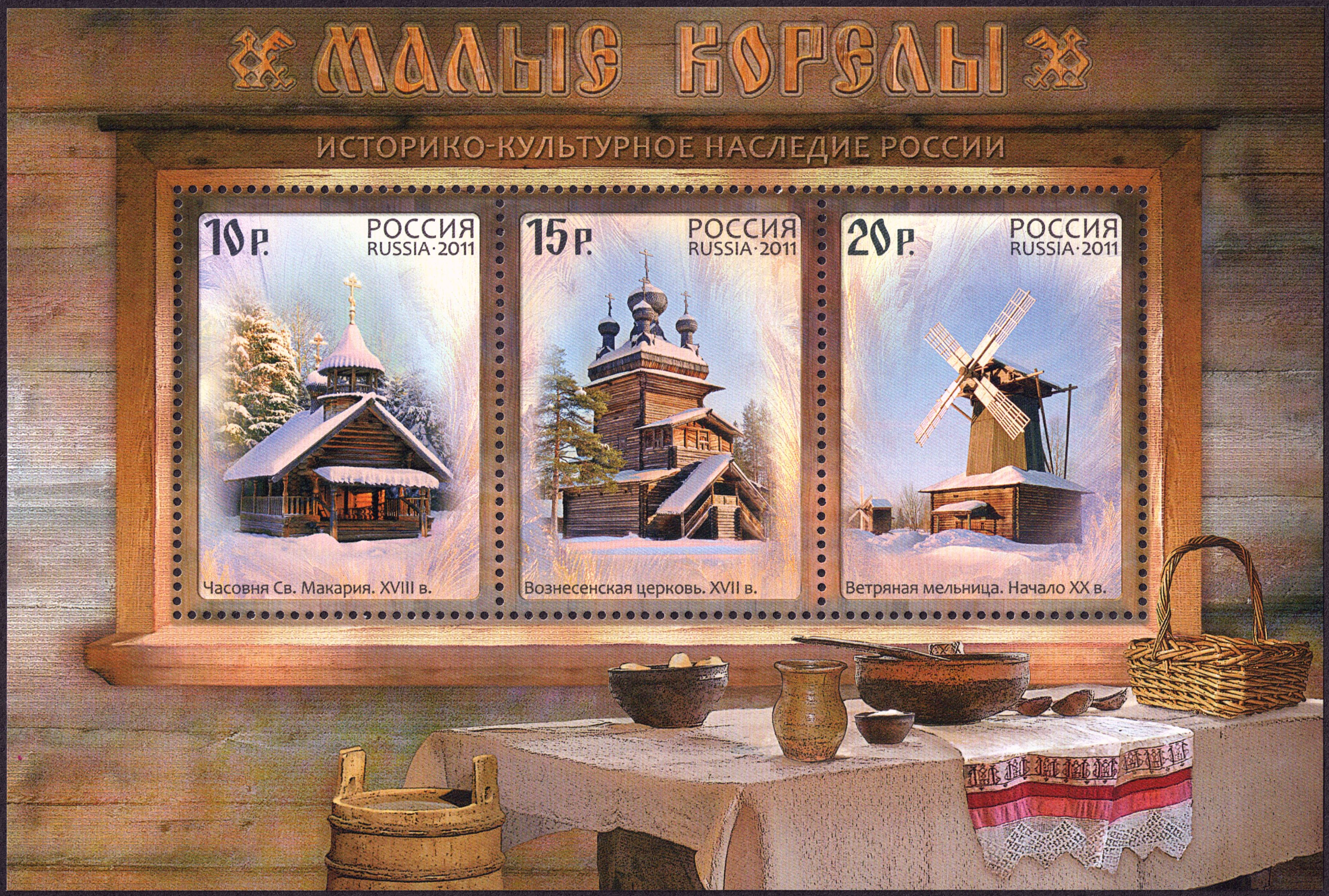 Cultural heritage of Russia. The museum of wooden architecture and folk art “Malye Korely”. The miniature sheet of Russia (3 stamps), 8 August 2011, PTC Marka Catalogue No 1498–1500, Michel No 1730–1732 (Block150). Offset printing. Perforation: comb 12×12½. Size of the miniature sheet: 151×101 mm. Size of the stamps: 37×48.7 mm. Print run: 95,000 miniature sheets. No 1498 10.00 Rub.No 1499 15.00 Rub.No 1500 20.00 Rub. No 1498, 10.00 Rubles. The Chapel of Saint Macaris of Unzha. 18th century, from Fyodorovskaya village, Kargopol Uyezd, Olonets Guberniya. No 1499, 15.00 Rubles. The Ascension Church. 1669, from Kushereka village, Onega Uyezd, Kushereka Volost, Arkhangelsk Guberniya. No 1500, 20.00 Rubles. A windmill. 1902, from Kozheozersky Monastery, Onega Uyezd, Arkhangelsk Guberniya.